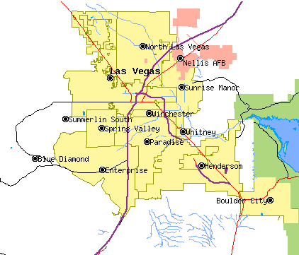 Map of the Las Vegas metropolitan area